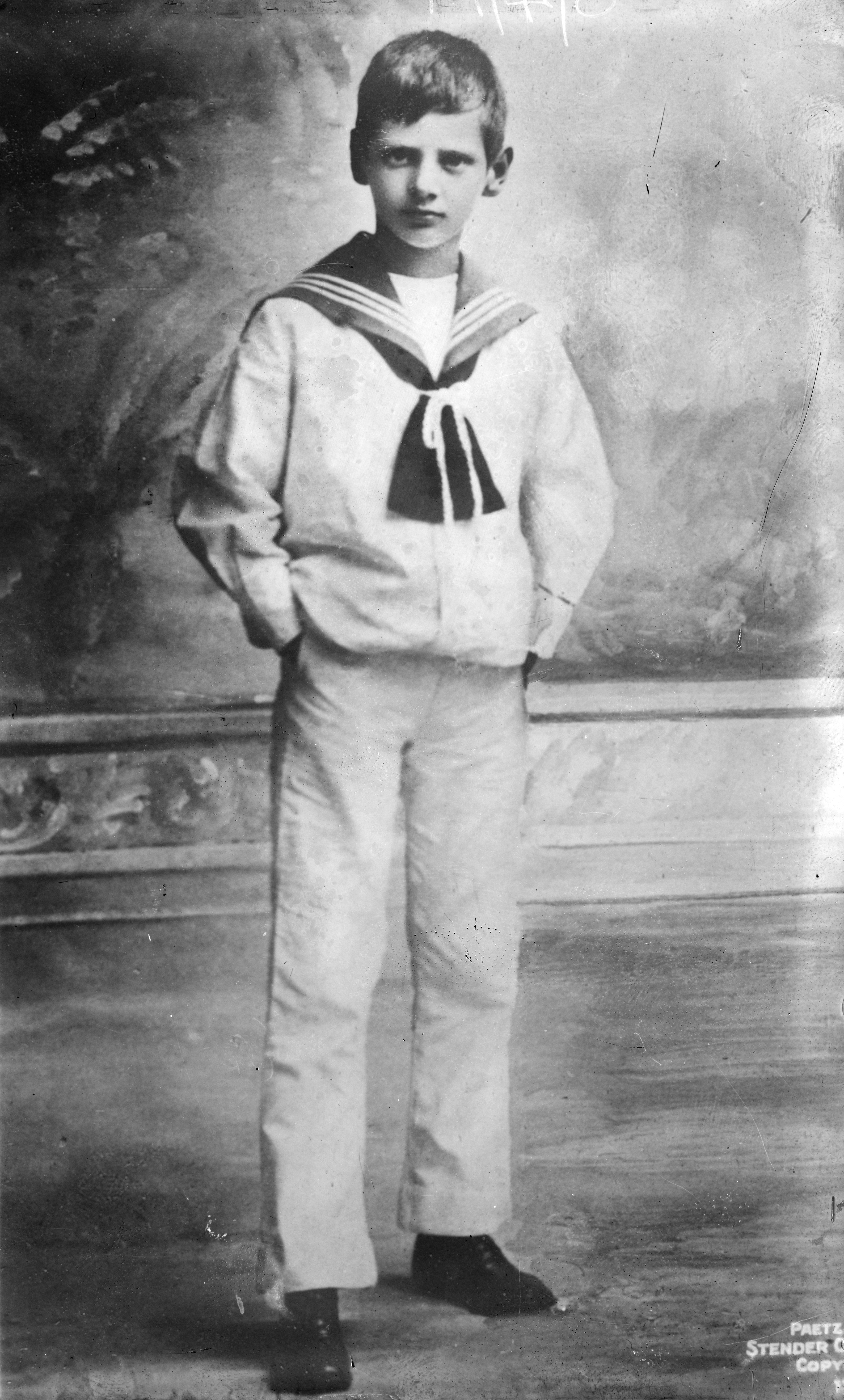 Crown Prince of Denmark (LOC) Frederick IX of Denmark circa 1914 Bain News Service, publisher. Crown Prince Denmark [between ca. 1910 and ca. 1915] 1914 March 4 (date created or published later by Bain) 1 negative : glass ; 5 x 7 in. or smaller. Notes: Title from unverified data provided by the Bain News Service on the negatives or caption cards. Forms part of: George Grantham Bain Collection (Library of Congress). Format: Glass negatives. Repository: Library of Congress, Prints and Photographs Division, Washington, D.C. 20540 USA, General information about the Bain Collection is available at Persistent URL: Call Number: LC-B2- 3013-7